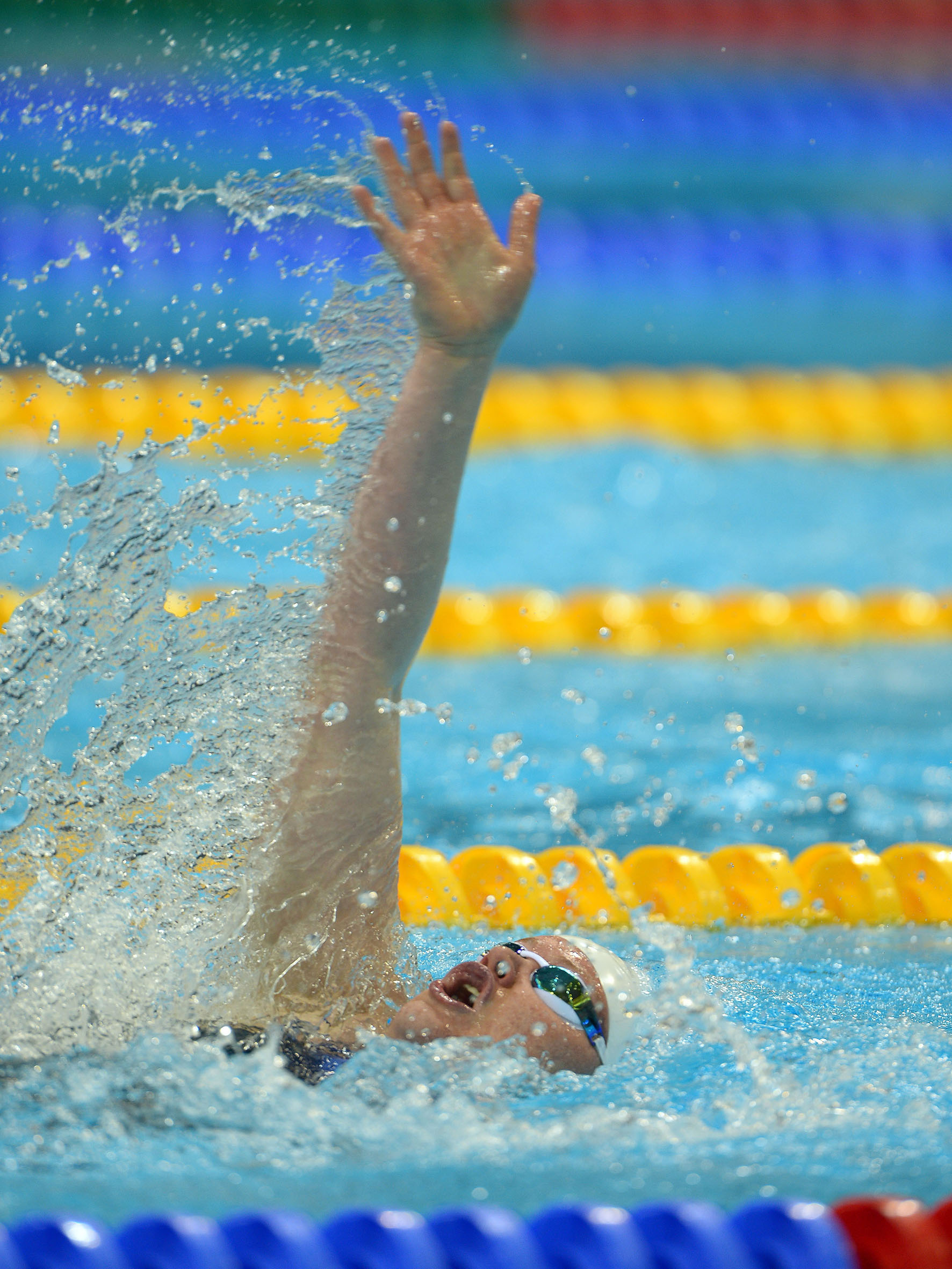 Photograph of Australian Paralympic team member Kara Leo at the 2012 Summer Paralympic Games in London